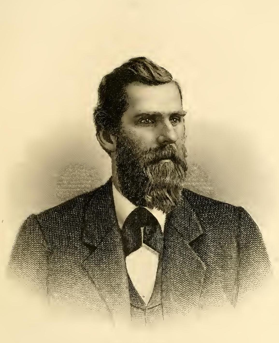 Person Colby Cheney